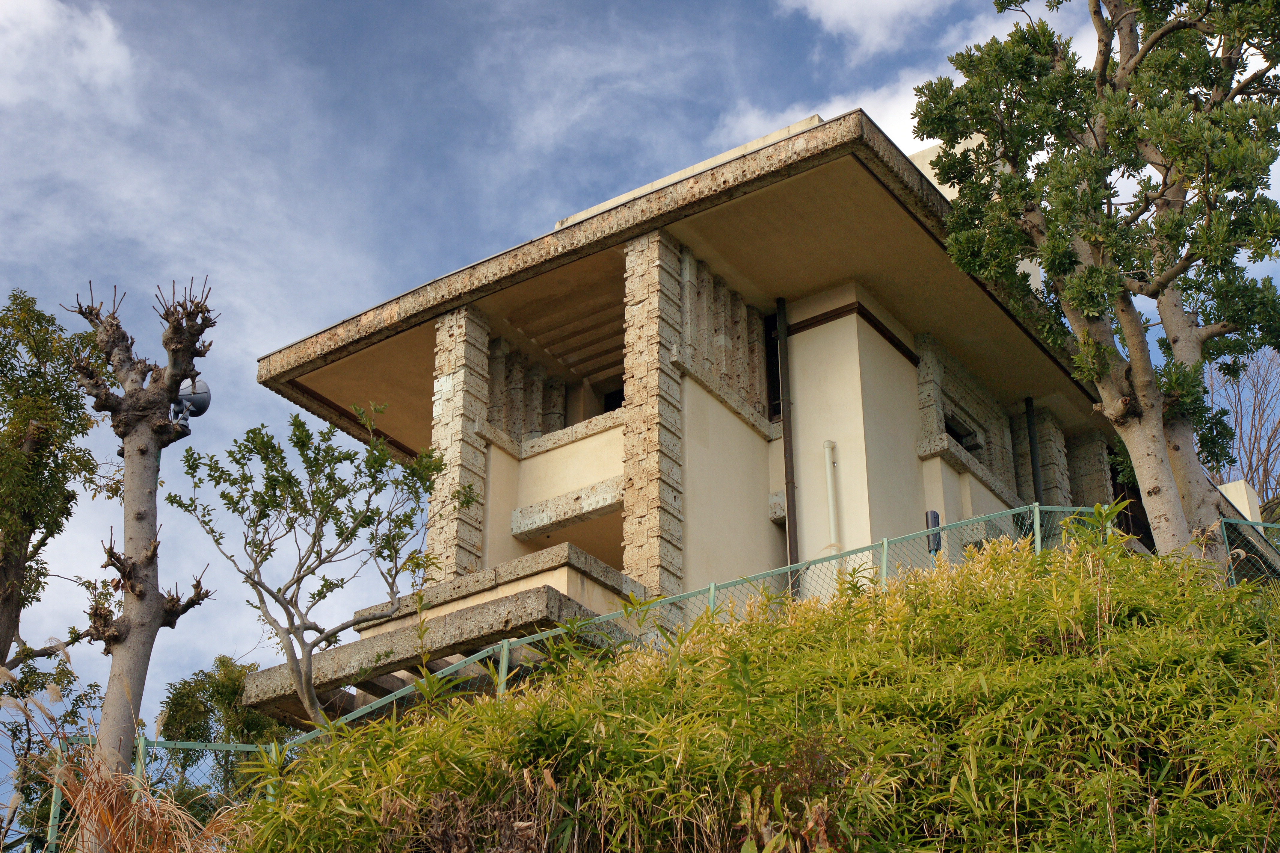 Yodoko Guest House (Yamamura House), Ashiya, Hyogo prefecture, Japan